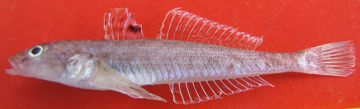 White goby (Neogobius pallasi) from the Caspian Sea near Bandar-e Anzali, Iran